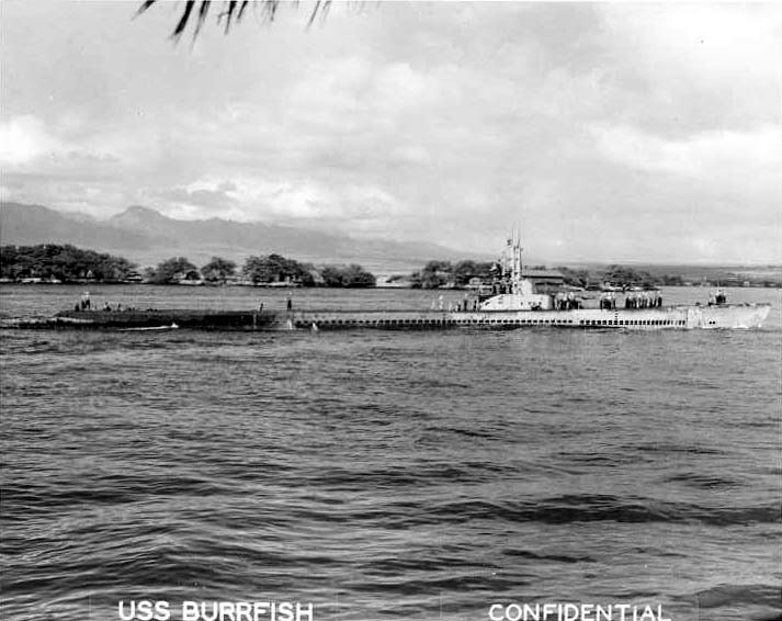 USS_Burrfish; Burrfish (SS-312) starboard view entering Pearl Harbor, circa 43-45, U.S. Navy photo courtesy of web site.